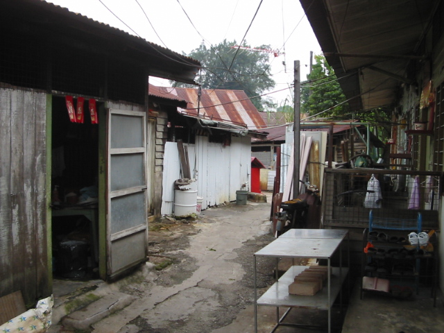 A shanty town at Loke Yew New Village in Kuala Lumpur